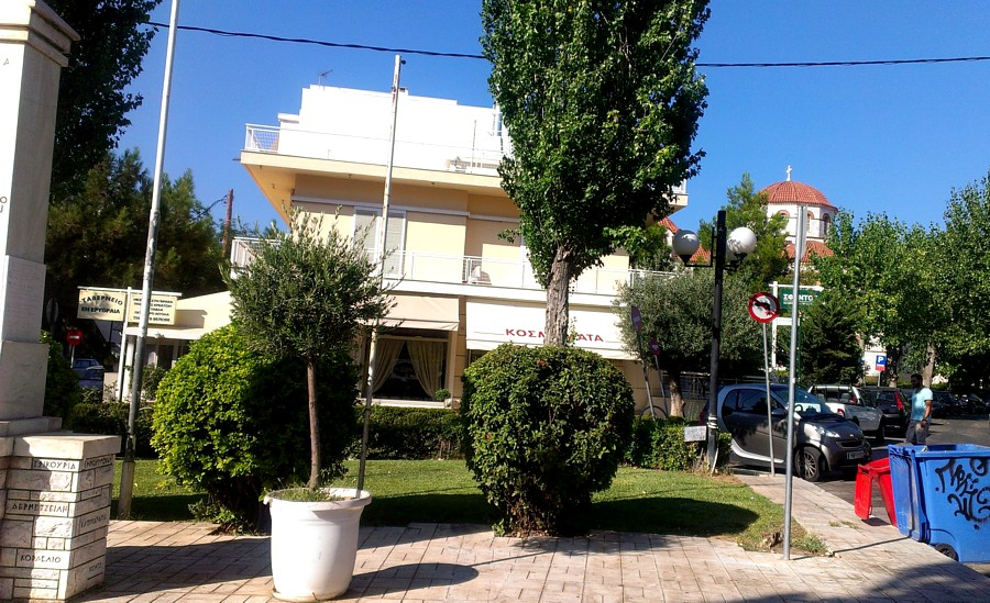 erythraia